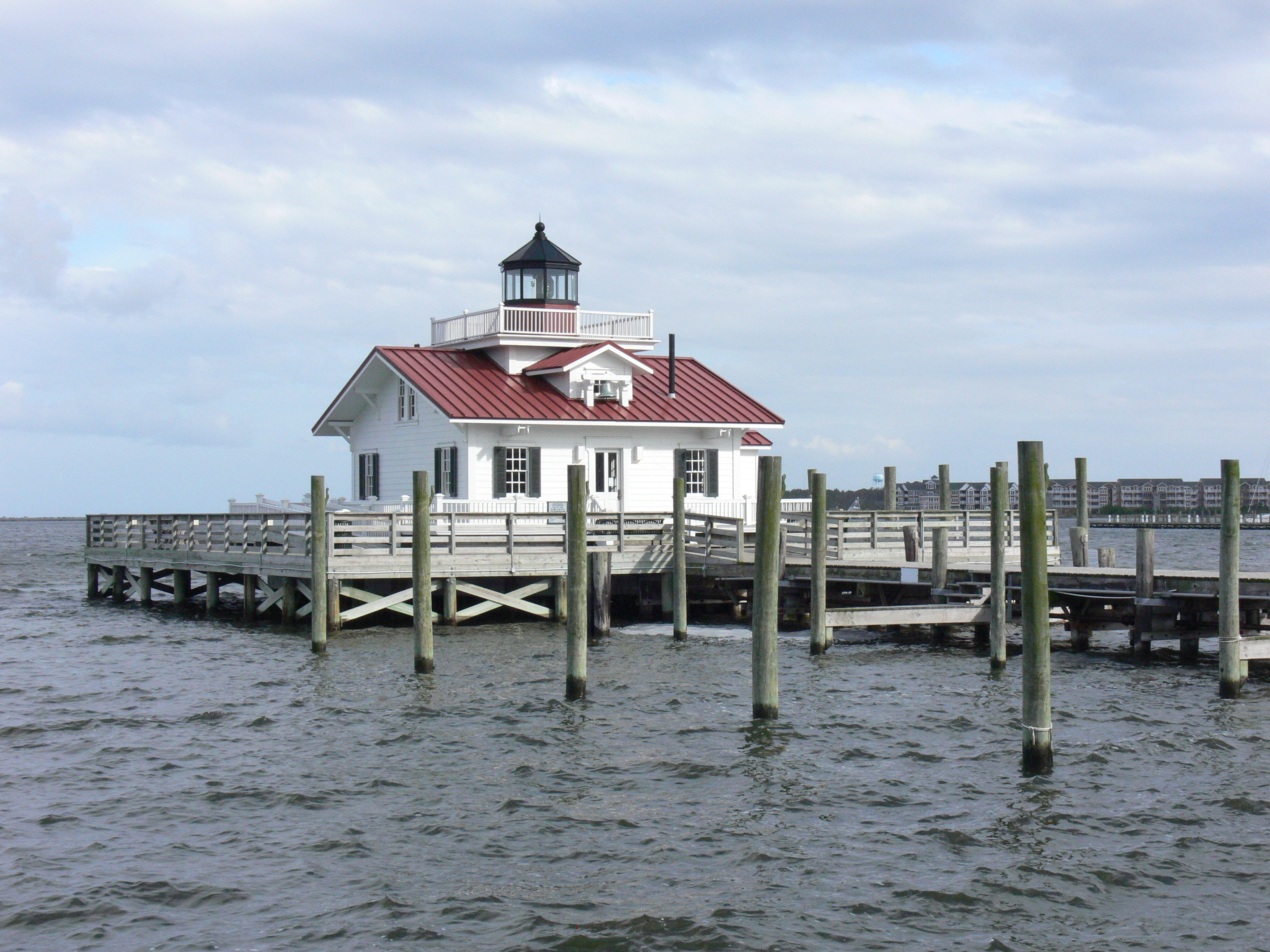 2004 replica of the original Roanoke Marshes Light, in Manteo, North Carolina.